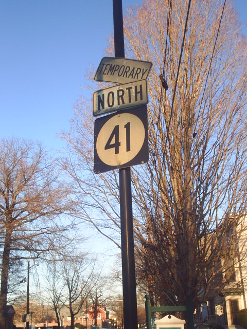 New Jersey State Route 41 with its Temporary signage created on a failed construction of a Haddonfield bypass.